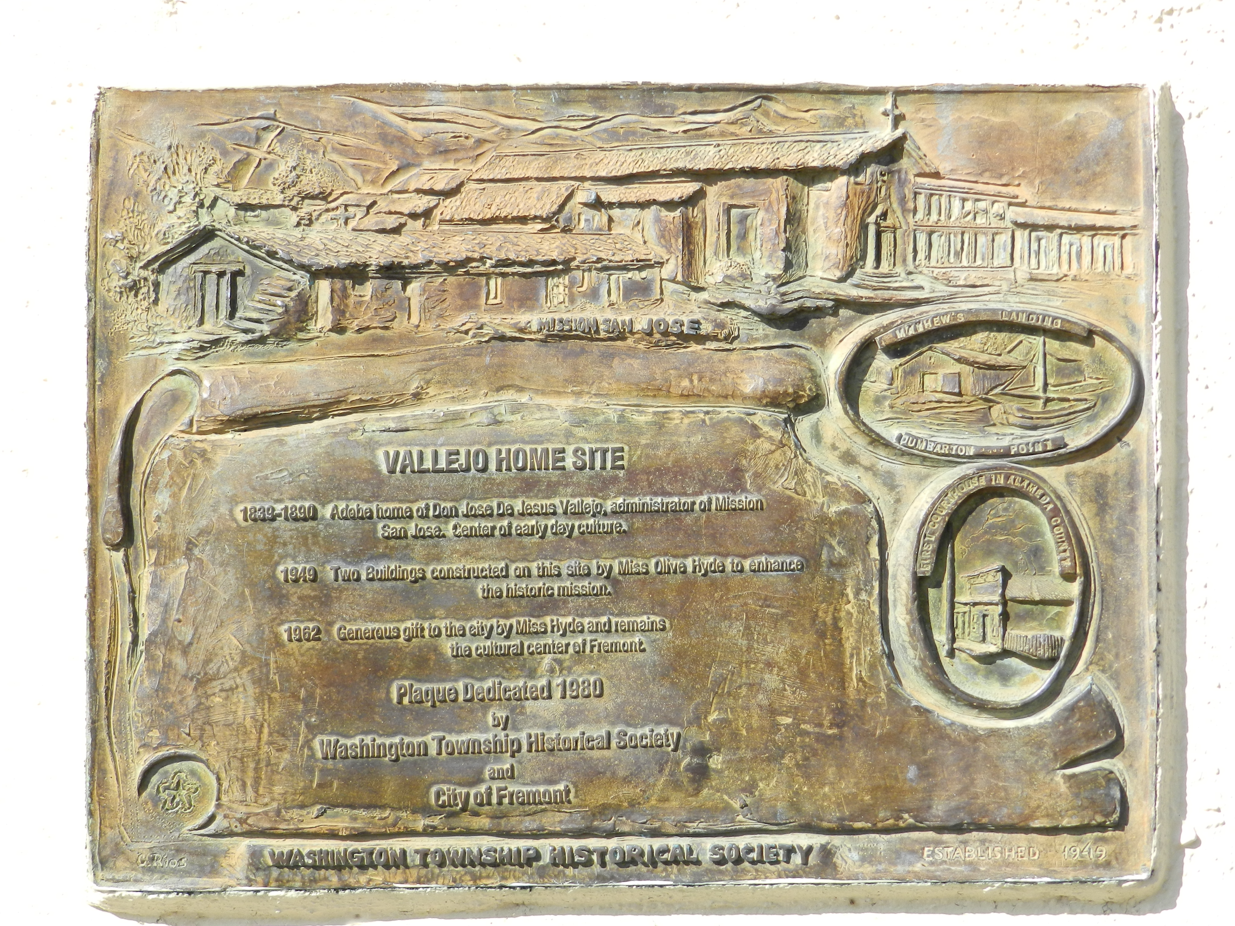 memorial plaque for the original Vallejo Home site, Fremont, California (near Mission San Jose) Object location37° 32′ 00.45″ N, 121° 55′ 13.5″ W